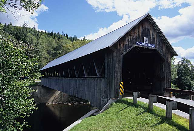 Columbia Covered Bridge over the Connecticut River between Columbia, New Hampshire and Lemington, Vermont. Contact me for higher rez.